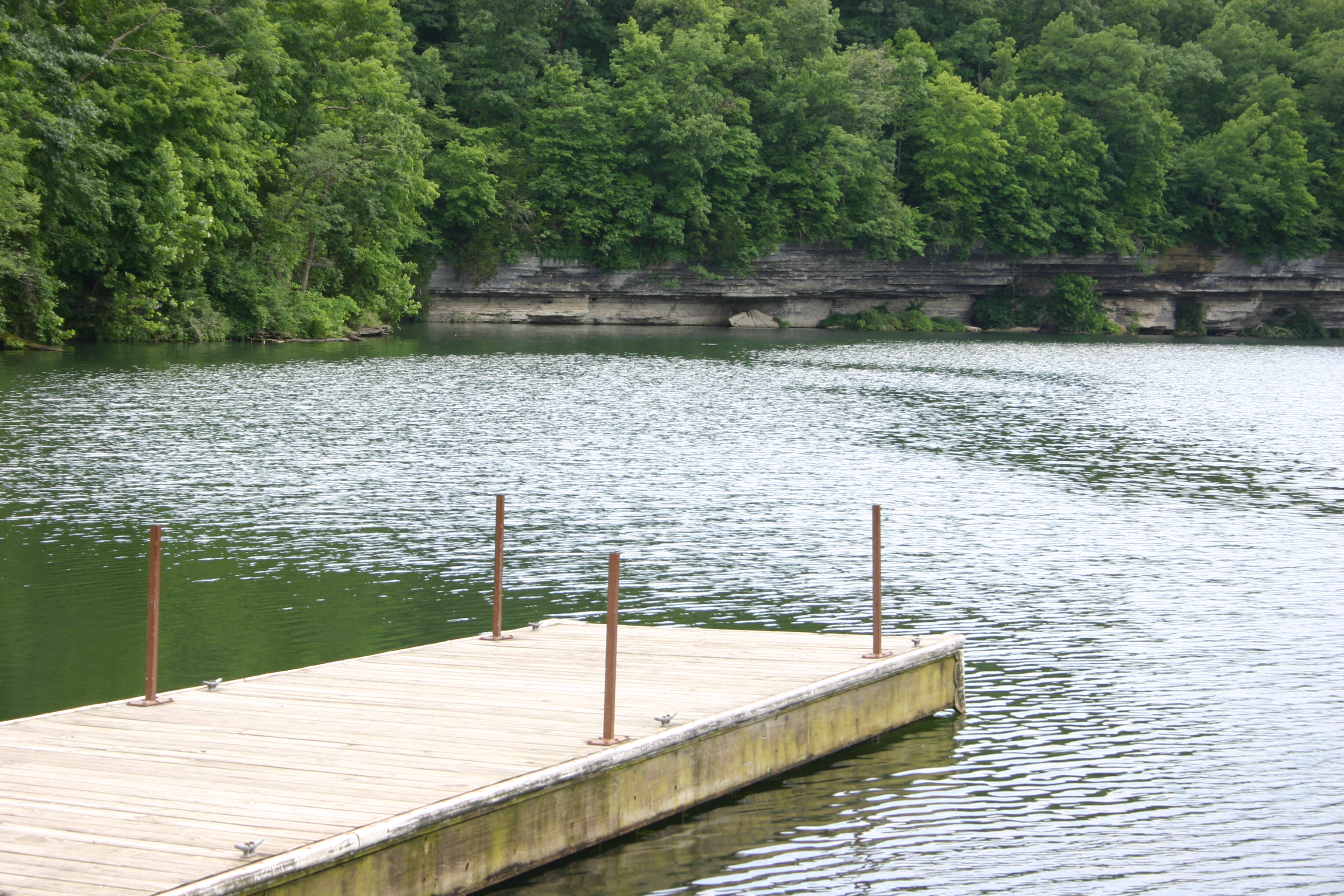 My [Michael Krewson's] personal picture of Lake Ann Bella Vista Village AR in June 2005. I am donating the wikipedia project.